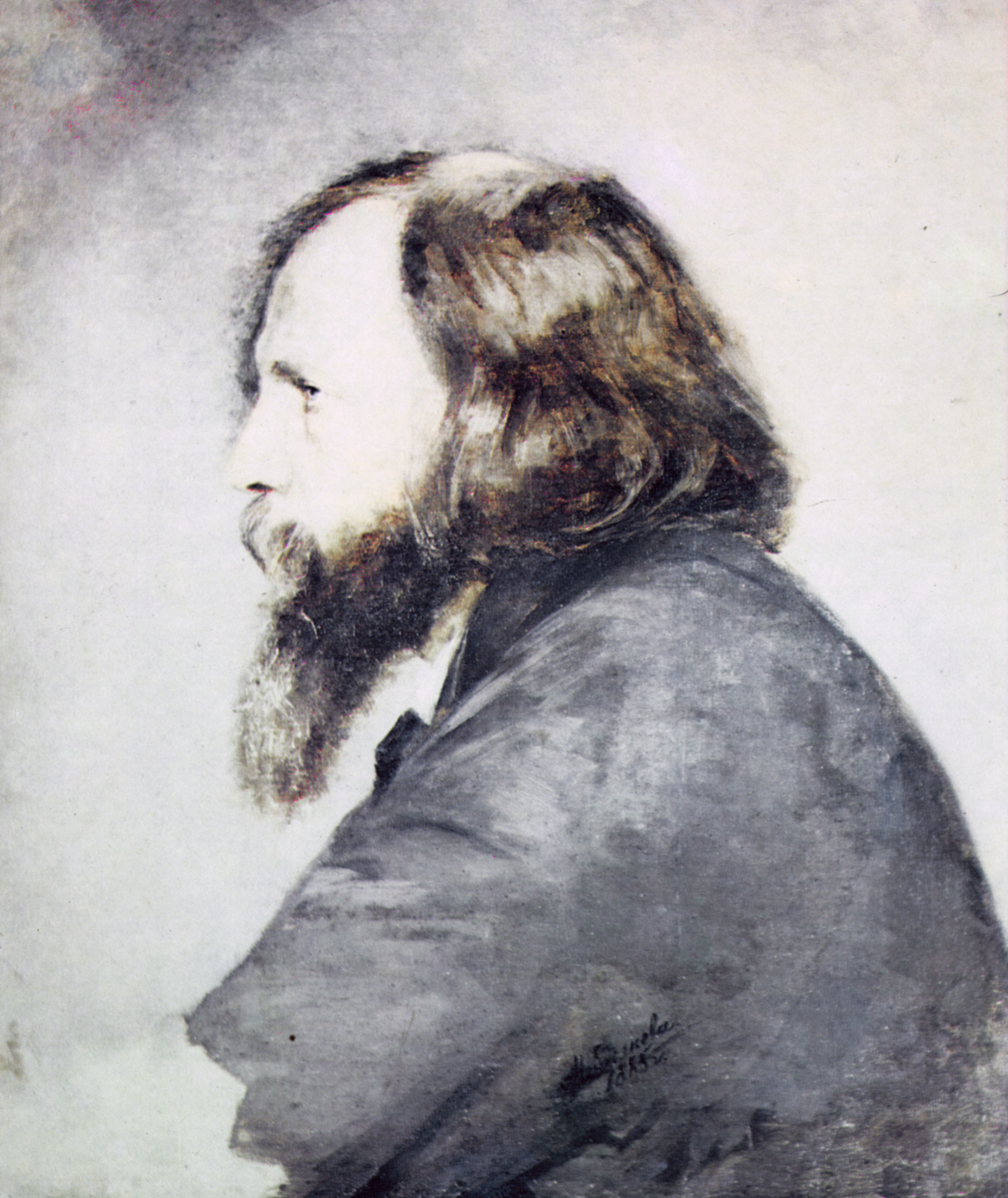 A. I. Mendeleeva. D. I. Mendeleev. 1885. Oil (is not finished)